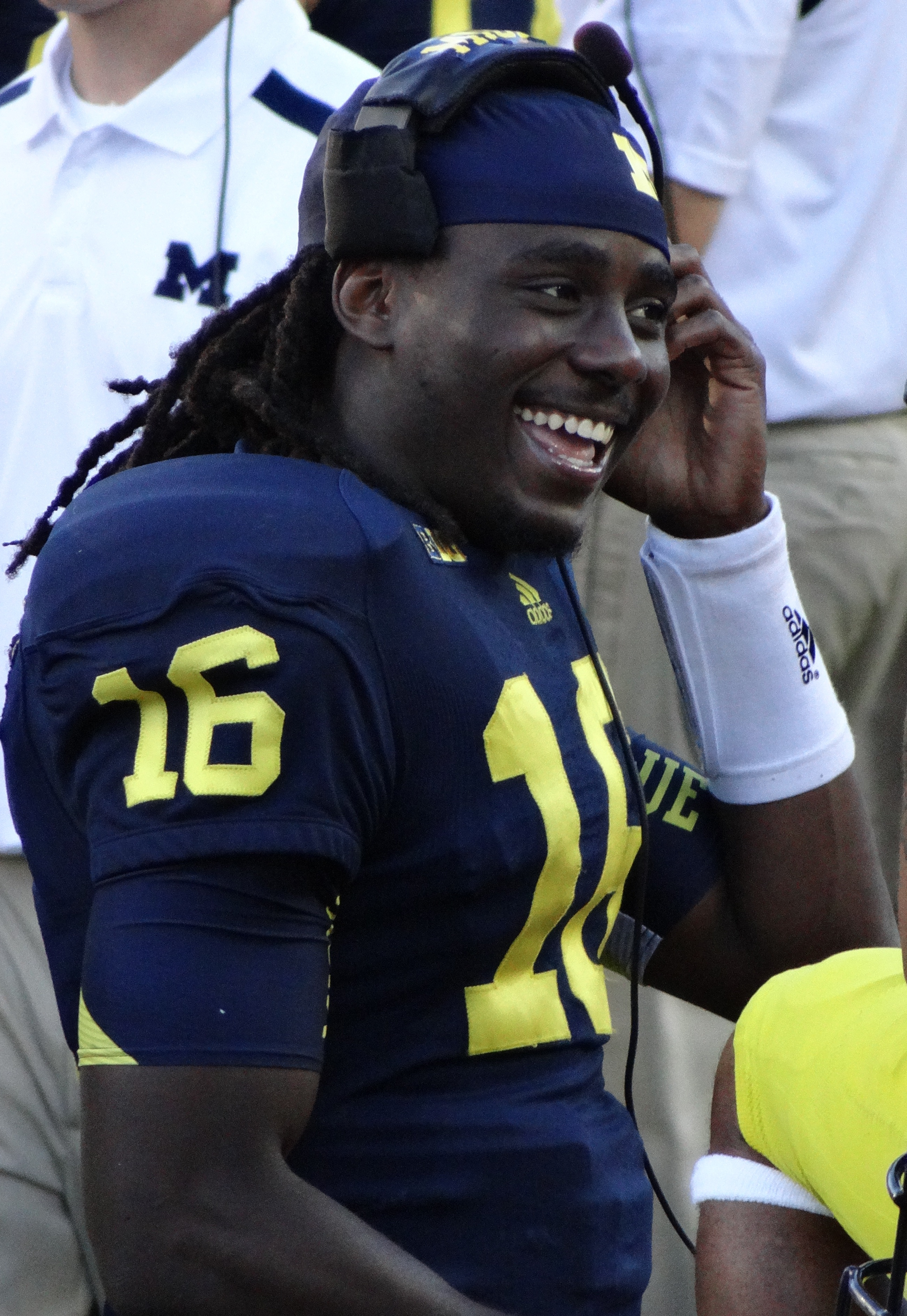 Denard Robinson on sideline against UMass